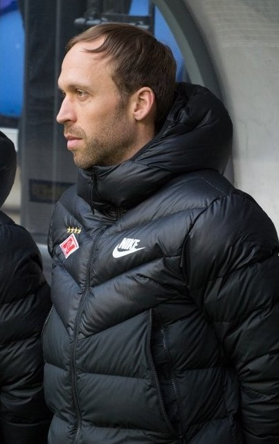 Andreas Hinkel working as a coach of FC Spartak Moscow during a game against FC Dynamo Moscow.